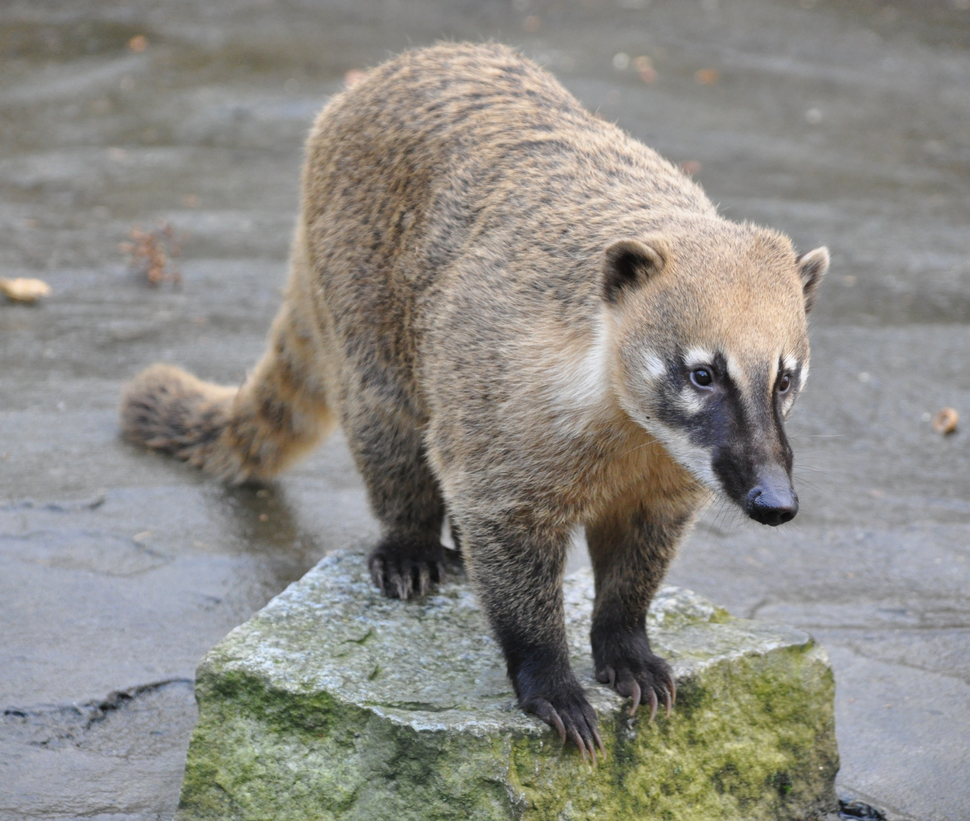 Ring-tailed Coati (Nasua nasua) in the Lüneburg Heath wildlife park, Germany.